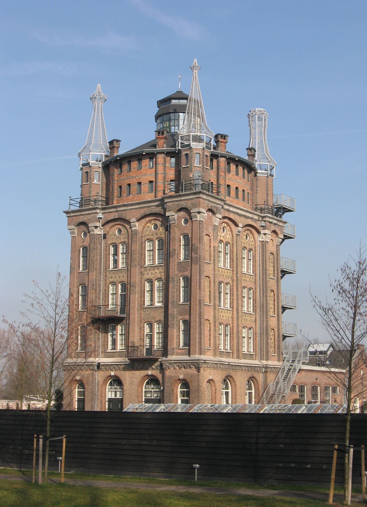 Hotel Villa Augustus, Dordrecht, Netherlands. Former Water Tower.